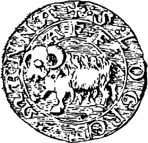 Coat of arms of the Faroe Islands before 1816 Føroyskt: Aldagamla skjaldarmerki Føroya. Brúkt av løgrættumonnum áðrenn løgtingið varð niðurlagt í 1816. Henda myndin er frá brævi frá Andras Guttormssyni løgmanni til kong dagfest 15. august 1533.